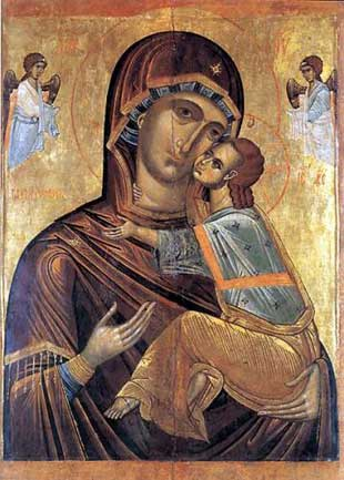 Virgin Mary